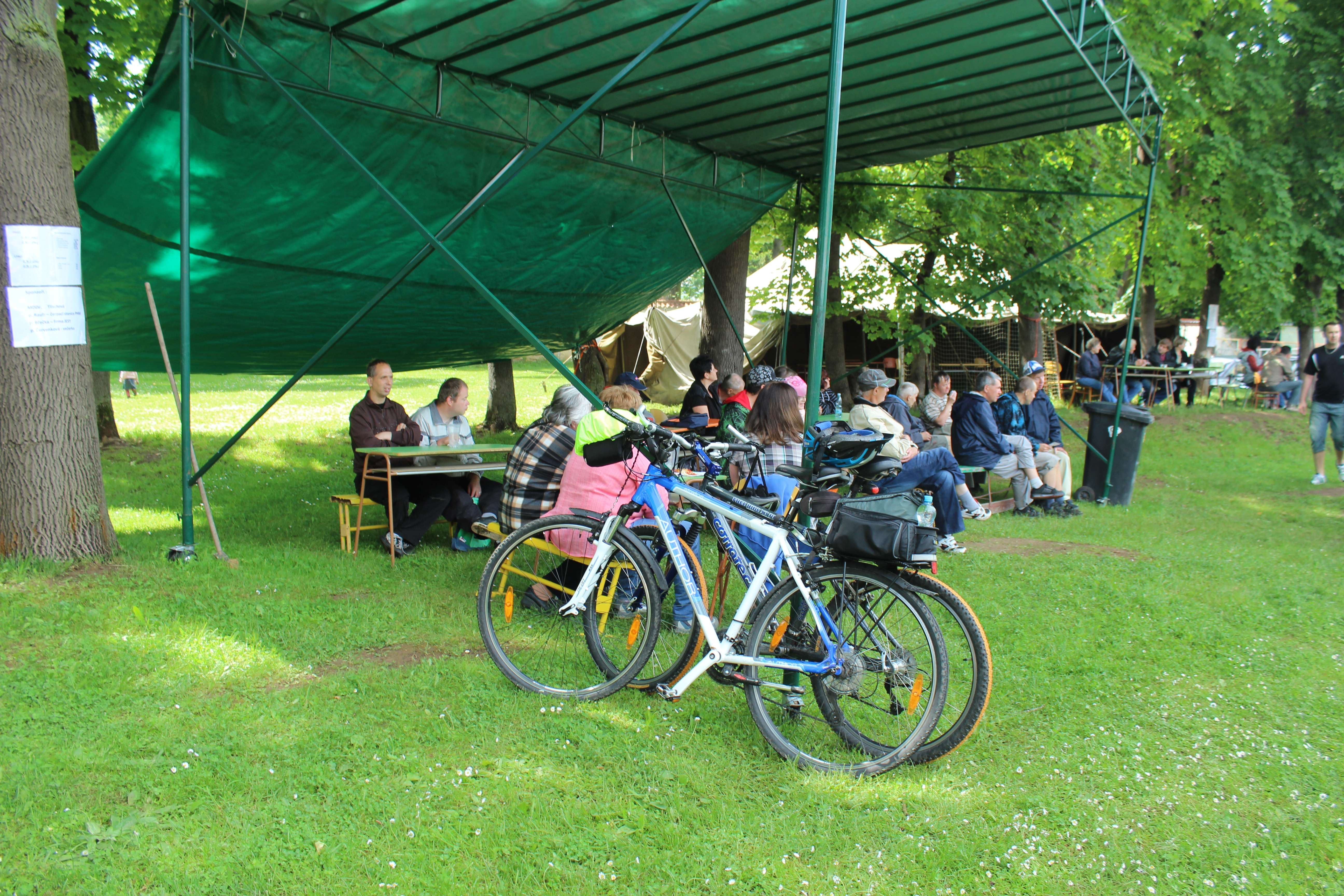 Liteňfest - Folk & Country Festival in Liteň (District Beroun)